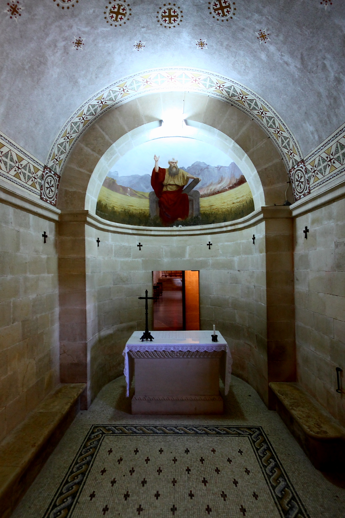 Fresco honoring Moses and the Ten Commandments at the Church of the Transfiguration on Mt. Tabor.